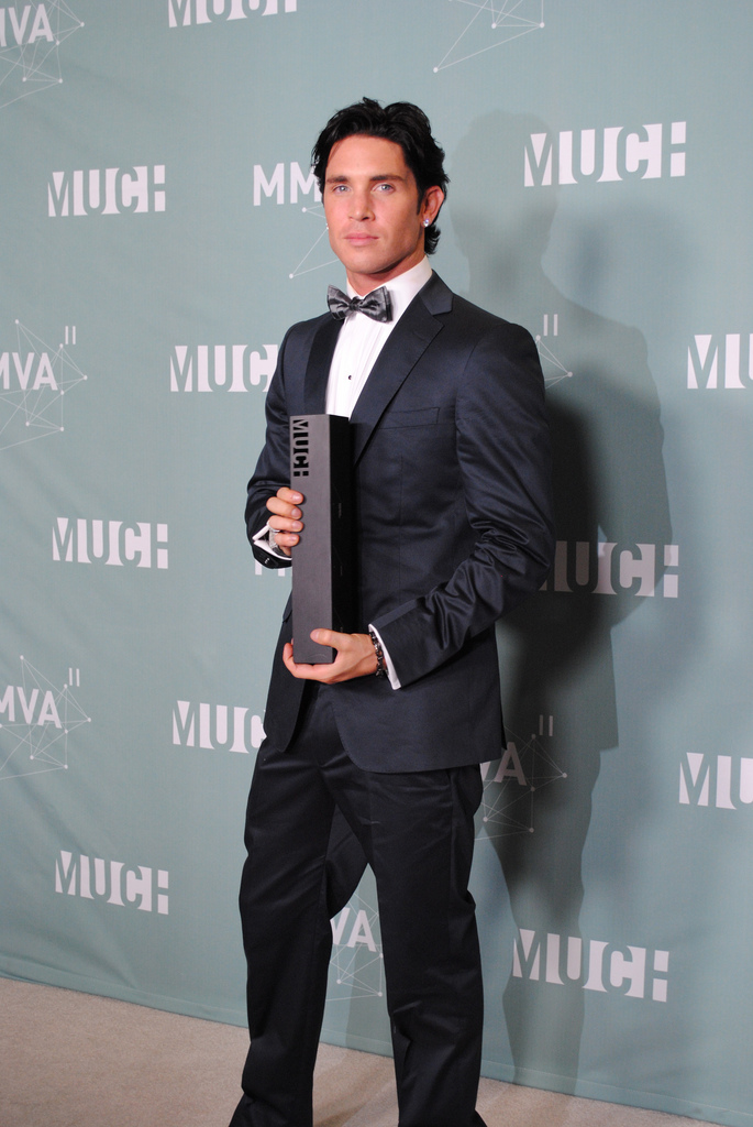 Blake McGrath at the 2011 MuchMusic Video Awards